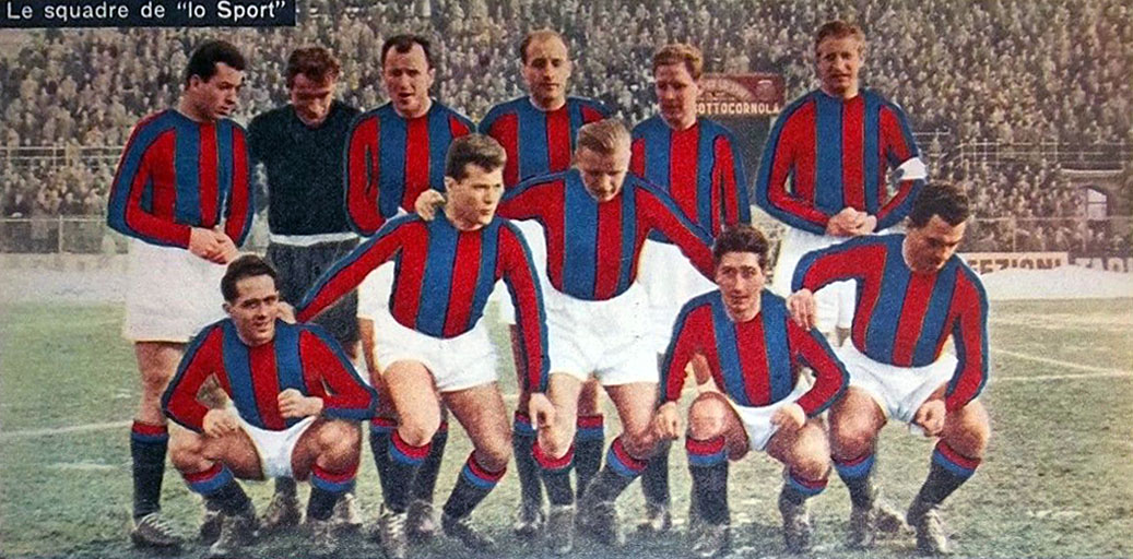 A line-up of Bologna F.C. in the 1953–54 season. From left to right, standing: G. Pivatelli, A. Giorcelli, D. Ballacci, F. Greco, I. Jensen, G. Cappello (captain); crouched: G. Giovannini, C. Cervellati, A. Pilmark, U. Pozzan, I. Mike Mayer.